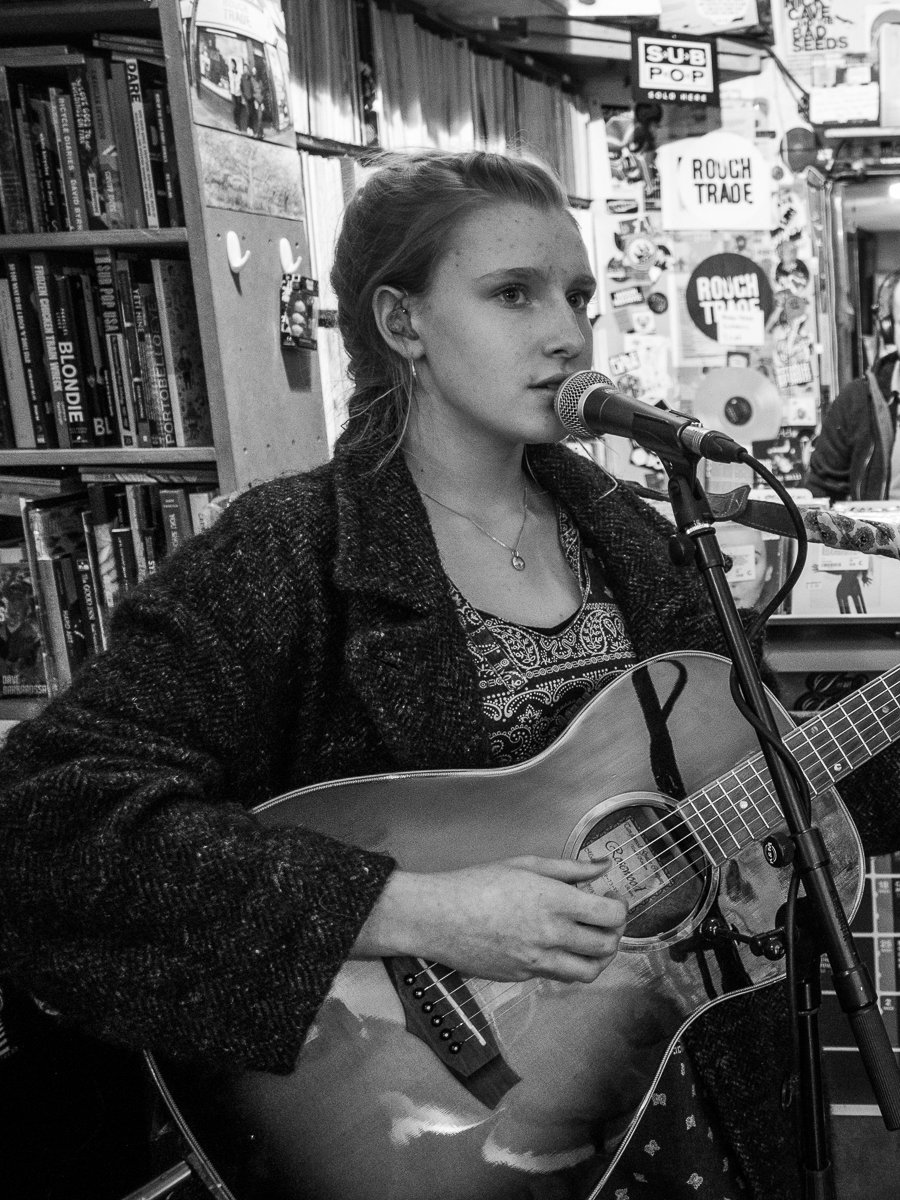 Billie Marten playing Rough Trade West